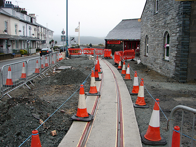 Construction of the Porthmadog cross town link between the Ffestiniog Railway and Welsh Highland Railway.